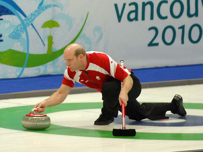 Kevin Martin, skip of the Canadian team, at the Vancouver 2010 Olympics.